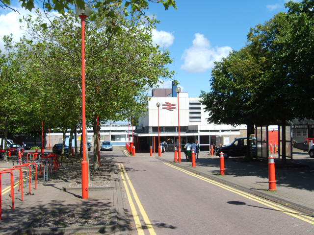 Wolverhampton Railway Station Viewed from Railway Drive.